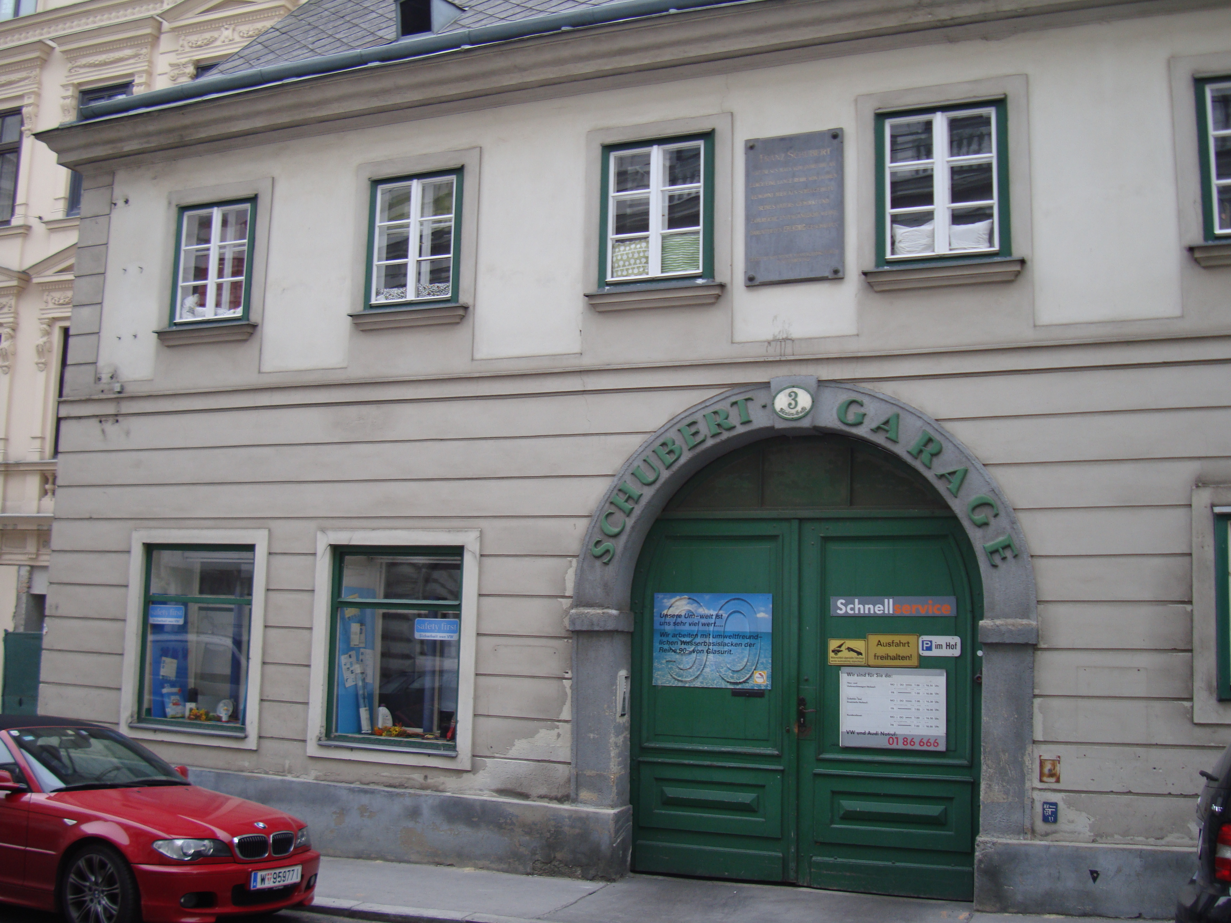 Saeulengasse4